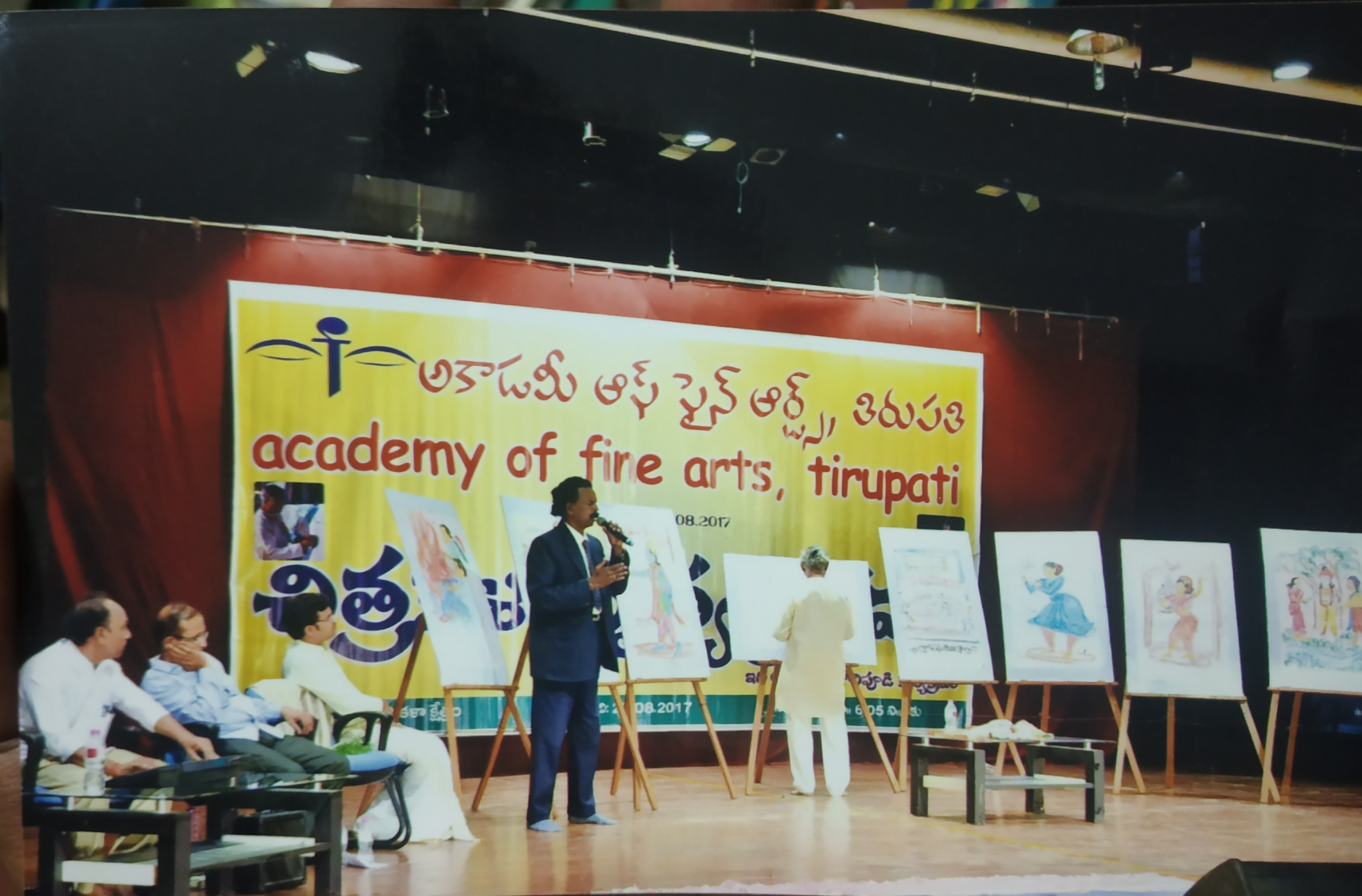 Chitravadanam